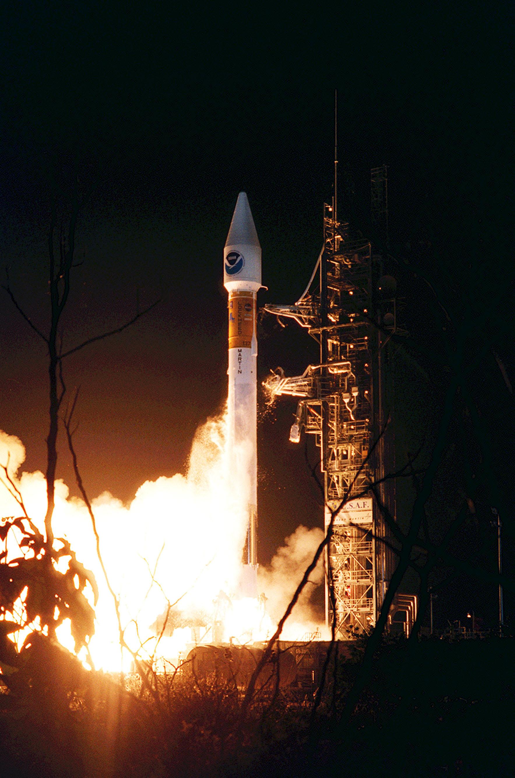 The Atlas II/Centaur rocket carrying the NASA/NOAA weather satellite GOES-L lifts off at 3:07 a.m. EDT from Pad A at Complex 36 on Cape Canaveral Air Force Station. The primary objective of the GOES-L is to provide a full capability satellite in an on-orbit storage condition, in order to assure NOAA continuity in services from a two-satellite constellation. Launch services are being provided by the 45th Space Wing. Once in orbit, the spacecraft is to be designated GOES-11 and will complete its 90-day checkout in time for availability during the 2000 hurricane season